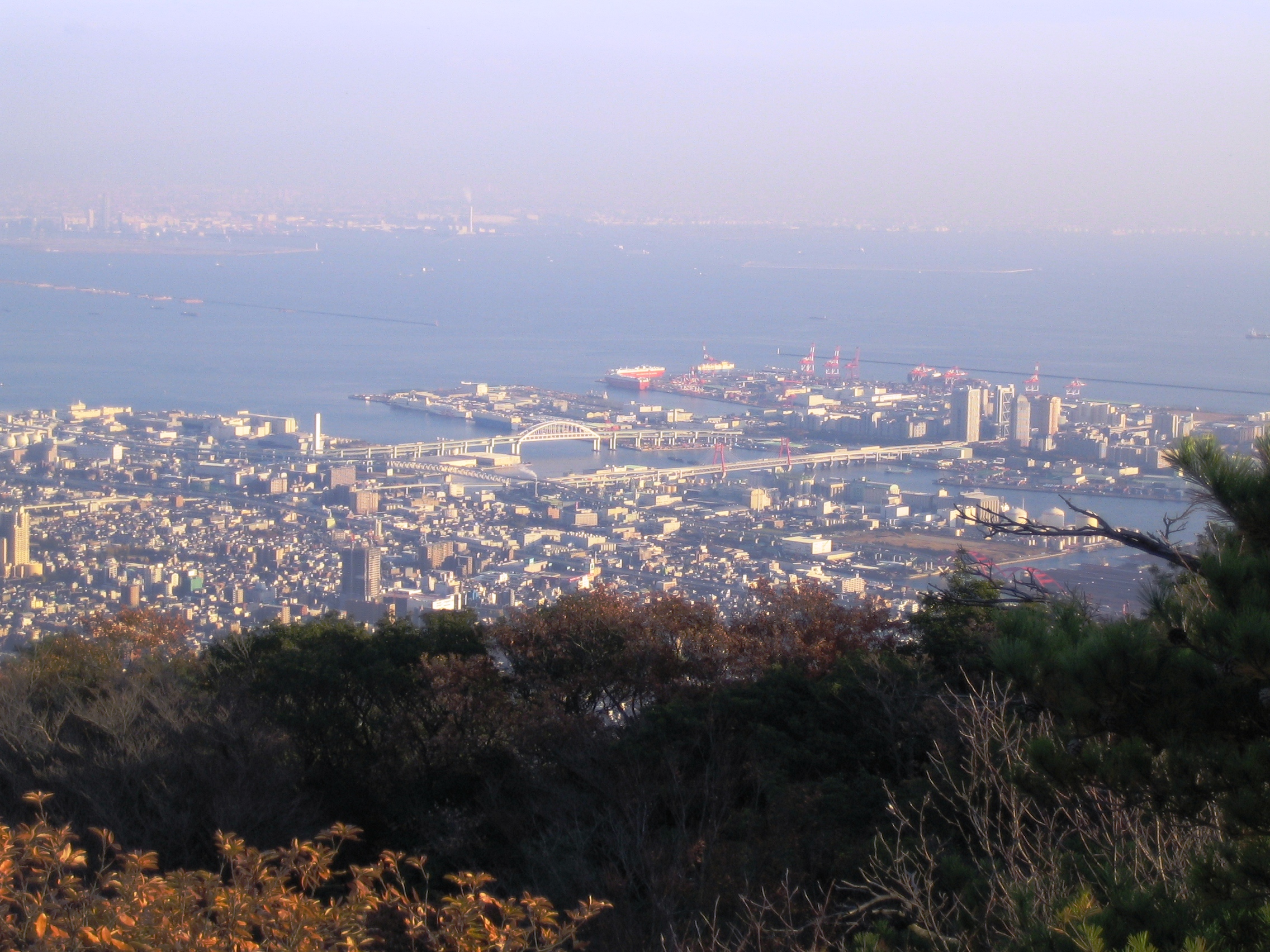 Rokko Island from Mount Nagamine of Rokko Mountains, Kobe, Hyogo, Japan.